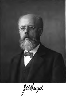 German zoologist Johann Wilhelm Spengel (1852-1921)